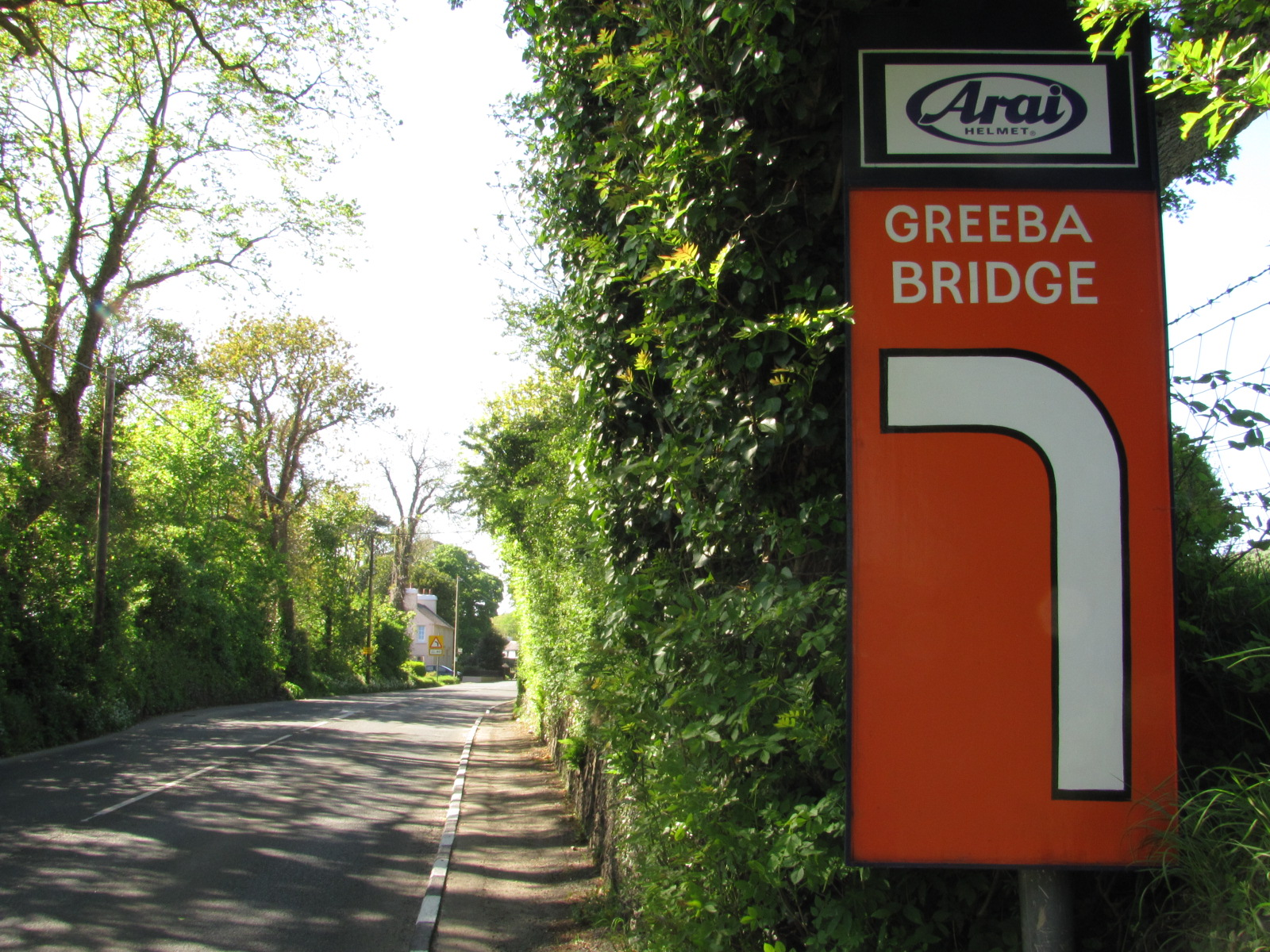 Greeba Bridge, Isle of Man.